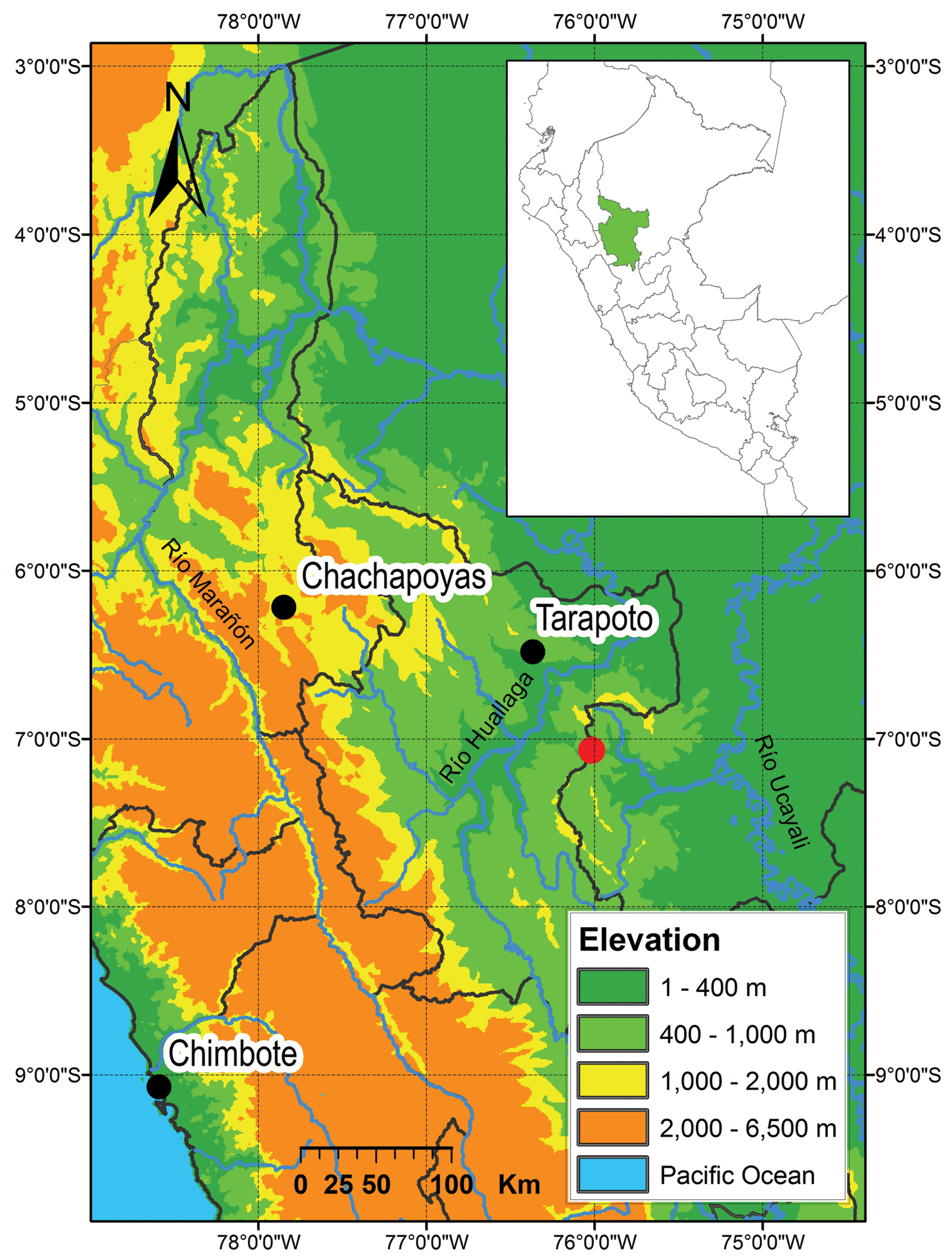 Distribution of Enyalioides azulae and Enyalioides binzayedi in Peru. The red circle indicates the type (and only currently known) locality of both species.